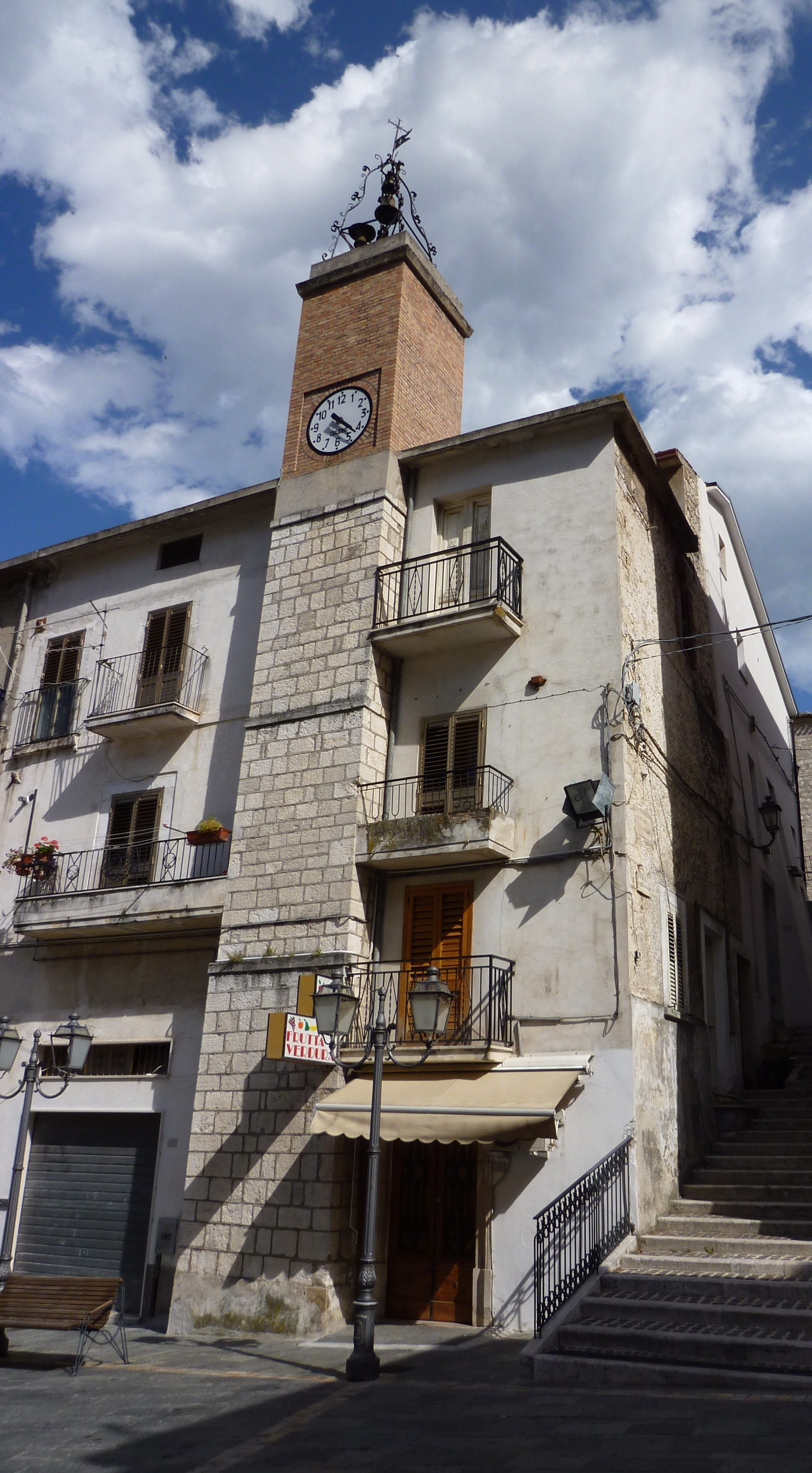 Civic Tower, Fara San Martino, province of Chieti, Abruzzo, Italy.